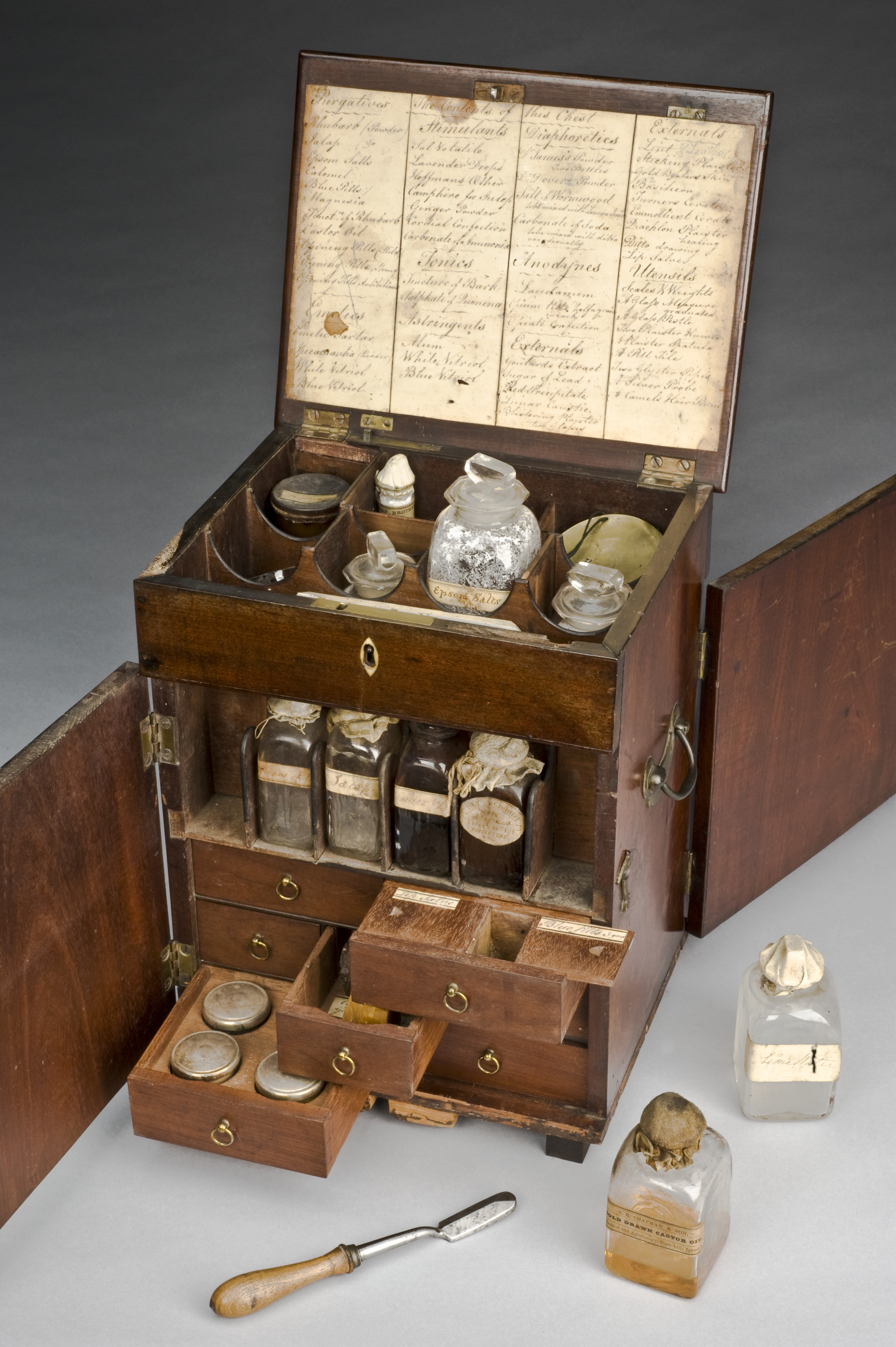 The mahogany medicine chest contains boxes, bottles and tubes of medications to treat a number of conditions. The chest includes treatments to purge the body by vomiting (emetics), by sweating (diaphoretics), as well as general purgatives such as rhubarb, jalap and calomel. Other medications include pain relief, such as opium plus astringents and stimulants, including ginger and lavender. The chest contains a handwritten inventory listing the medications. The chest also includes a set of scales, weights, a pill tile and a spatula. The set was probably used in the home or by a chemist or apothecary. maker: Unknown maker Place made: England, United Kingdom Wellcome Images Keywords: Opium; pill tile; medicine chest; astringent; spatula; balance